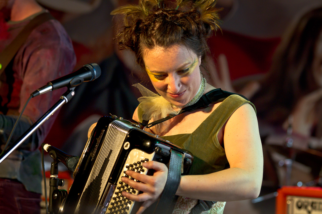 Emma Nadeau of Lost In The Trees playing at SXSW Music Festival.